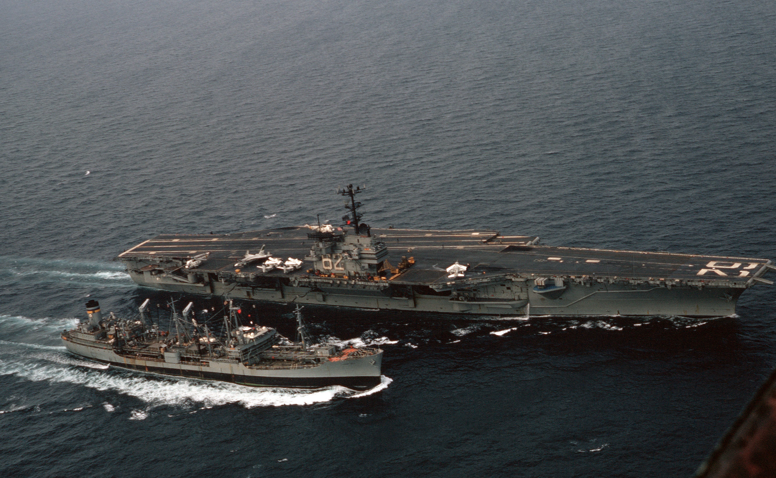 The U.S. Military Sealift Command fleet oiler USNS Marias (T-AO 57) underway alongside the U.S. Navy aircraft carrier USS Independence (CV-62) during an underway replenishment in the 1970s. Note that Marias is not wearing a hull number. The date given for the picture is 11 February 1988. However, aft of the island is a North American RA-5C Vigilante which was last deployed on Independence in 1977. The two planes between the RA-5C and the Island could either be Grumman C-1 Trader COD planes or Grumman S-2 Tracker ASW planes. As there are two planes (which would be unusual for COD planes), the picture was most probably taken in between 1973 and 1975, when Independence had an S-2 squadron as part of her air group.